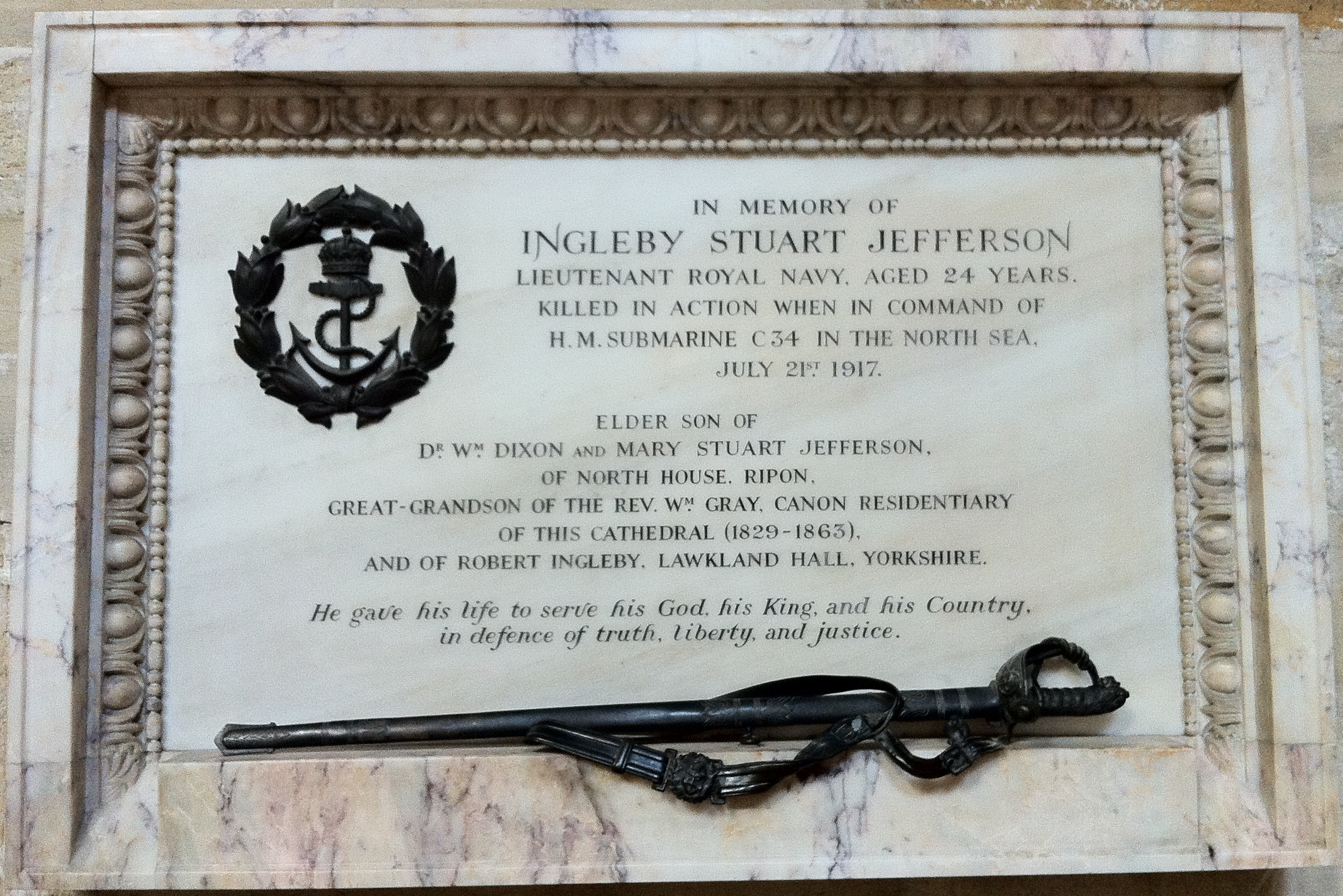 Ingleby Stuart Jefferson, Lieutenant Royal Navy. Aged 24 years. Killed in action when in command of H.M. Submarine C34 in the North Sea, 21 July 1917. Elder son of Dr William Dixon and Mary Stuart Jefferson, or North House, Ripon. Great Grandson of Revd William Gray, Canon Residentiary of this Cathedral (1829-1863), and of Robert Ingleby, Lawkland Hall, Yorkshire.